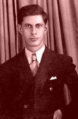 Kurdish poet Dildar Rauf in Ranya, Kurdistan, Iraq - 1944کوردی: شاعیری کورد دڵدار ڕەوف لە شاری ڕانیە لە ساڵی ١٩٤٤